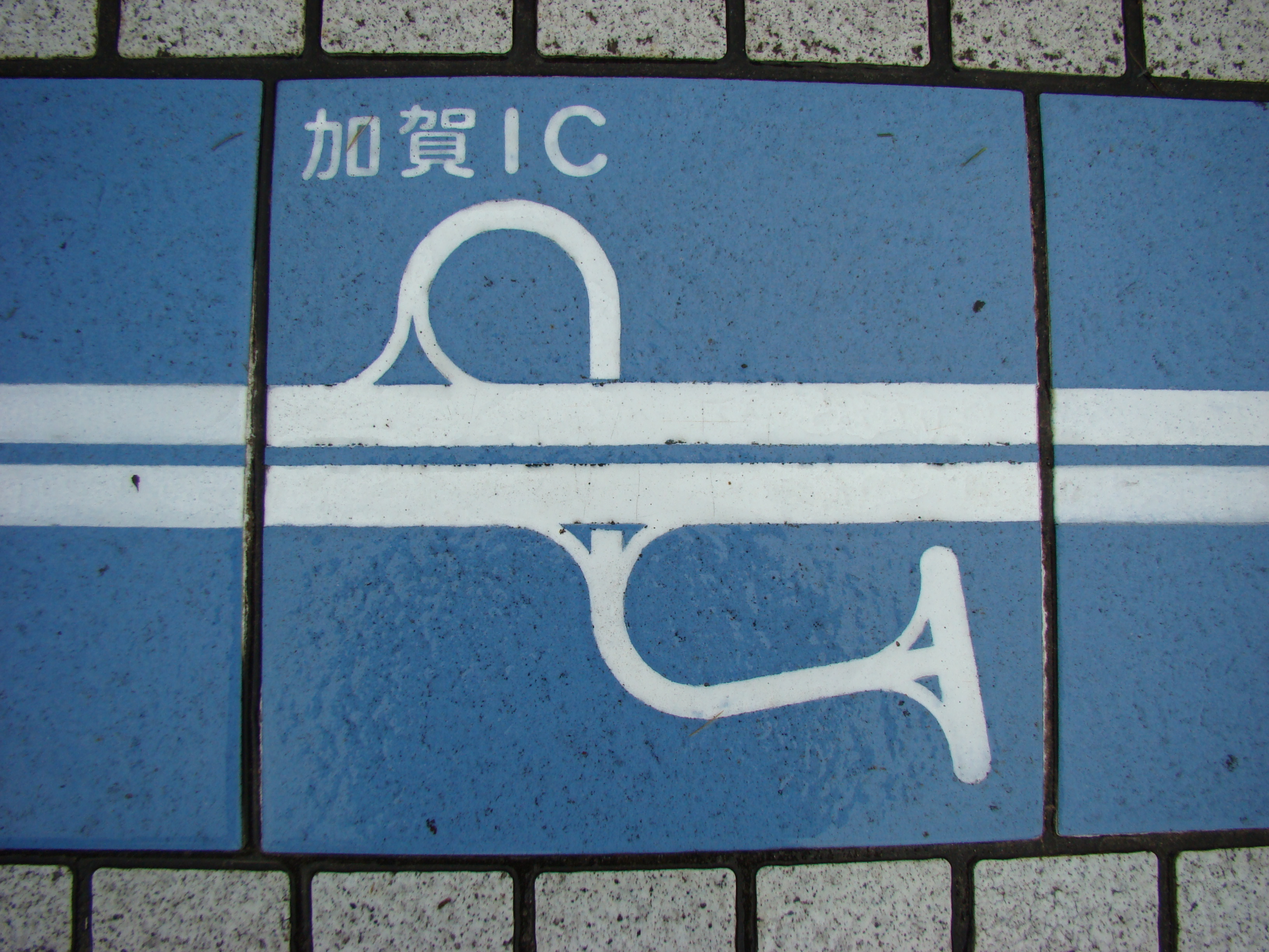 The tile which designed a shape of the Kaga Interchange（Hokuriku Expressway）（There is this tile in Hokuriku Expressway Nadachi-Tanihama Service Area.）. Place - Chayagahara,Joetsu City,Niigata Prefecture,Japan Date - August 9, 2009 Format - JPEG, 3264x2448pixel, 24bit colors. Photographer - NALA Wiki (talk)